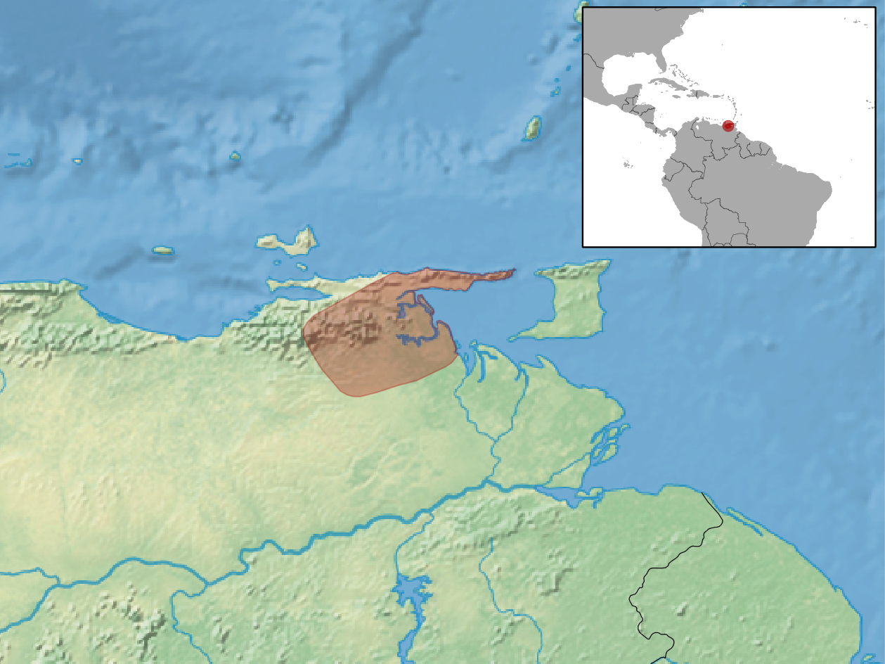 geographic distribution of Proechimys urichi